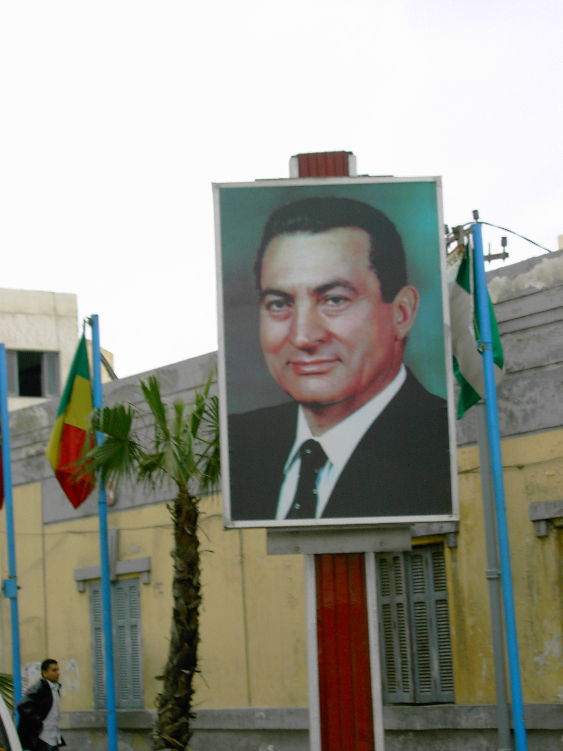 photo personnelle Egyptian presidential election campain 2005, Mubarak Photo,Alexandria